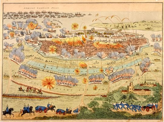 English print showing the Bombardement of Copenhagen in 1707. Amager and the Øresund in the background, Frederiksberg Palace in the foreground to the right with soldiers with canons.